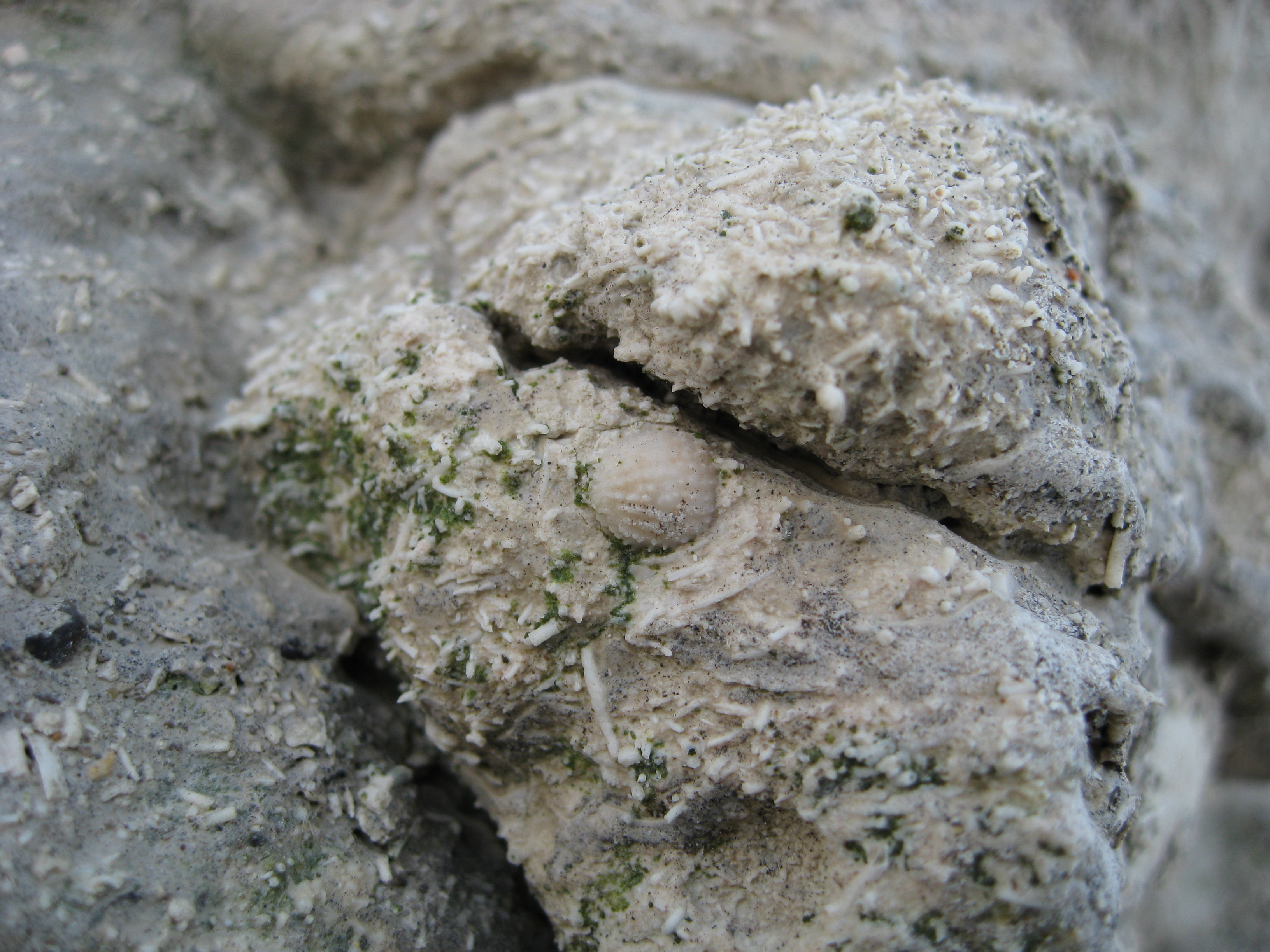 Photo taken by me, Sebastian Nils